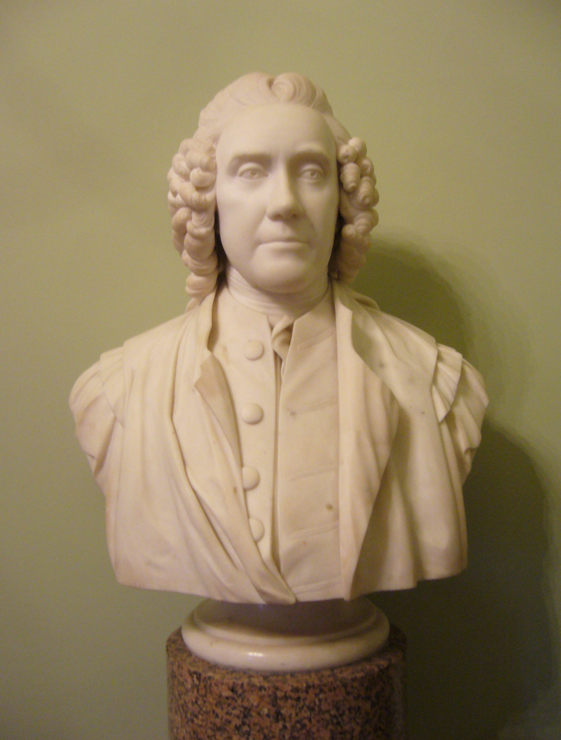 Bust of Alexander Monro Primus, who became Professor of Anatomy at Edinburgh University at the age of 21. He is credited with establishing the international reputation of the Edinburgh Medical School. His son and grandson, Monro Secundus and Monro Tertius, occupied the same Chair. The bust stands in a corridor outside the University Senate Rooms. Unknown sculptor, dated 1812